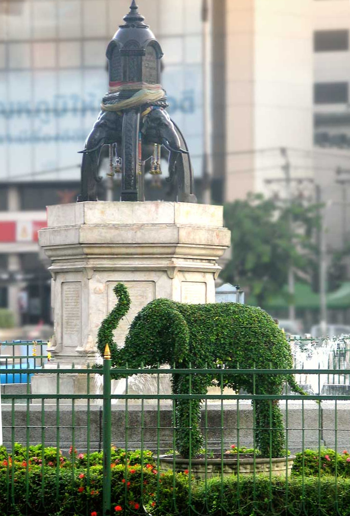 Statue of Erawan in front of Hualamphong railway station Bangkok, Thailand (Note: Erawan is NOT the little green elephant in the front!)